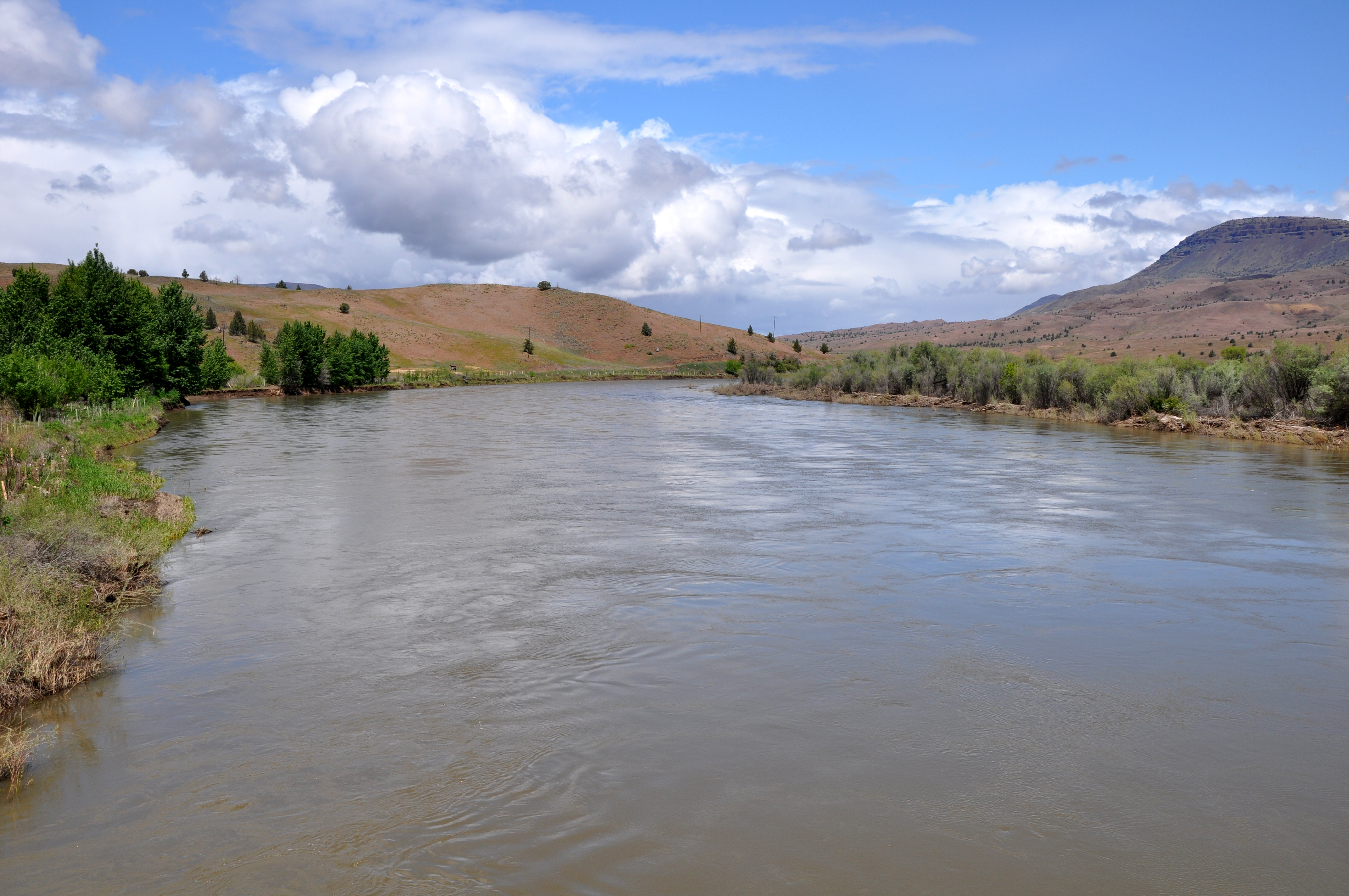 John Day River at Clarno in the U.S. state of Oregon. The water is high from spring rains and snow-melt. Clarno is about 109 miles (175 km) by water from the river mouth.